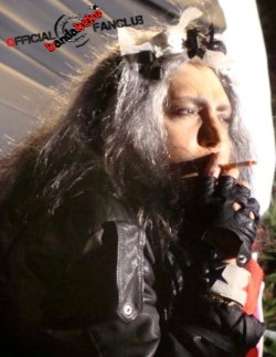 loredana bertè